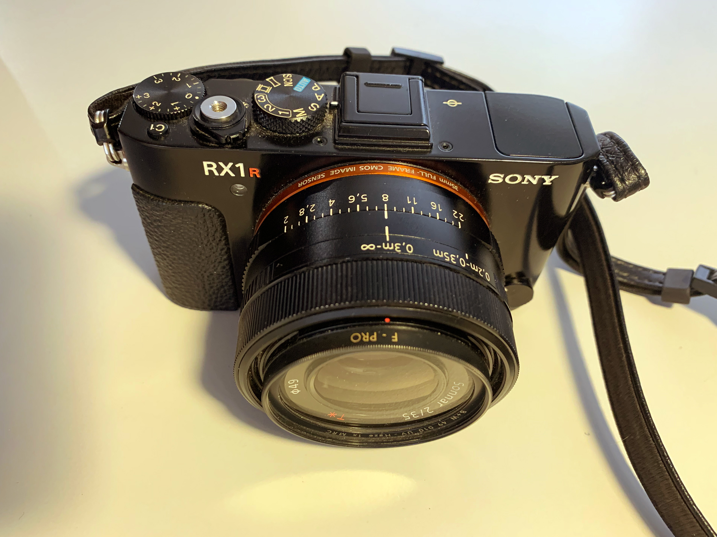 Photo of the Sony Cyber shot DSC RX1R II camera